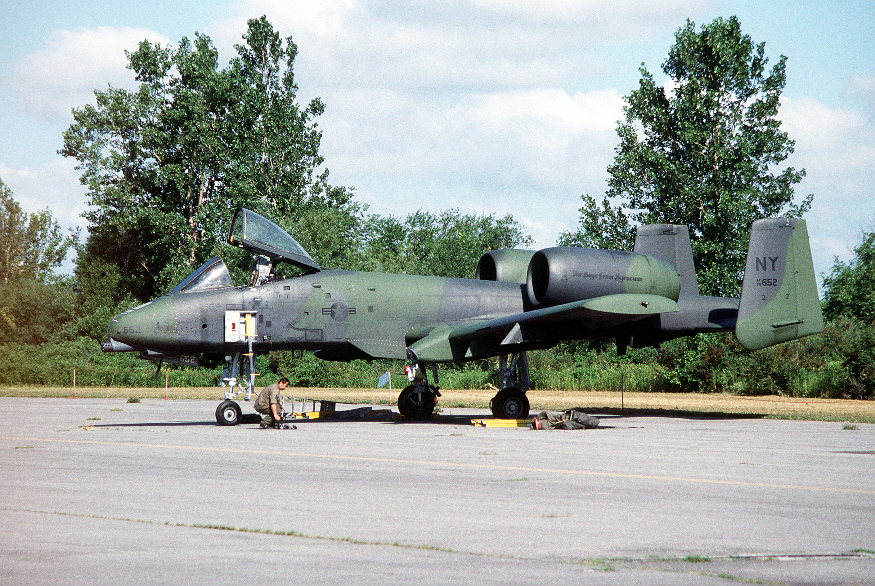 A U.S. Air Force Fairchild Republic A-10A Thunderbolt II (s/n 78-0652) from the 138th Tactical Fighter Squadron, 174th Tactical Fighter Wing, New York Air National Guard, undergoing maintenance during exercise "Sentry Castle '81" at Hancock Field, New York (USA) on 9 July 1981.